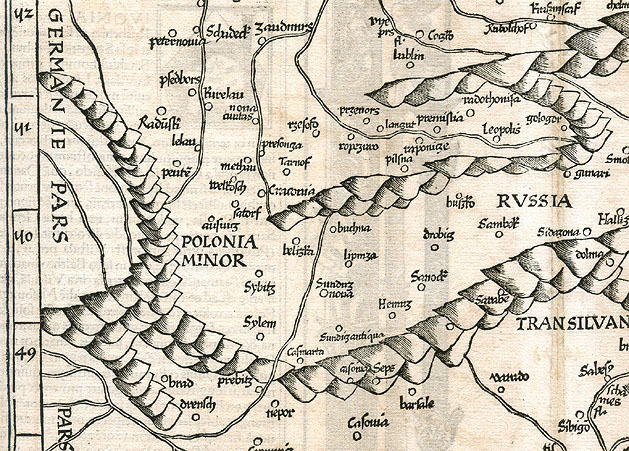 A fragment of Poland, Hungary and Germany map [Claudii Ptolemaei Geographicae enarrationis] by Martin Waldseemüller (1507), published in 1525 (Strassburg).